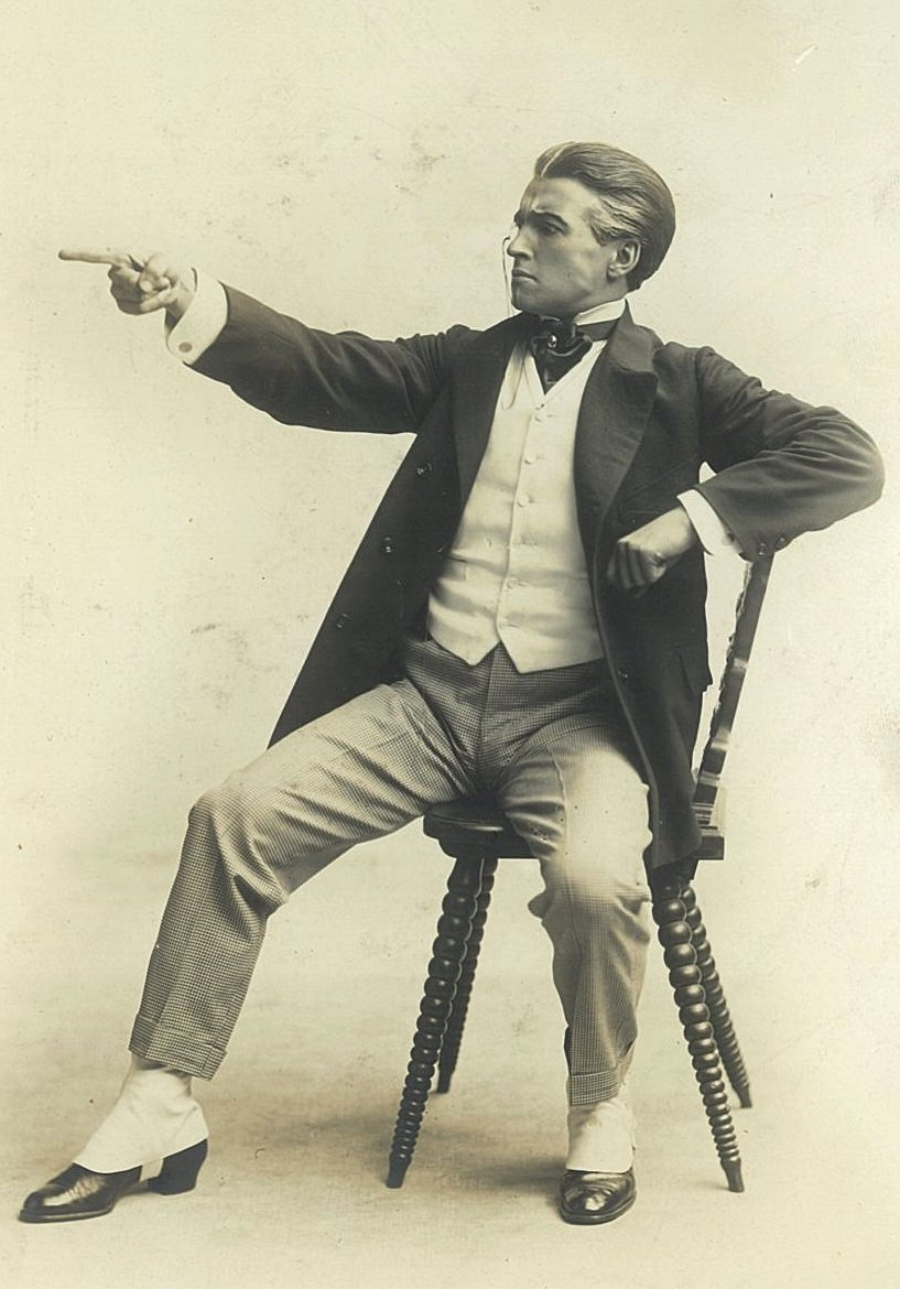 Claude Rains was born in England in 1889 and became a stage actor. In 1912 he toured Australia and can be seen here as a twenty three year old playing a mature and senior lawyer. He was already a successful Broadway actor when he moved to Hollywood for a long run of stardom in major films from 1933 on. Most of the portraits of him seen on the web are of the middle aged Hollywood star of films like Now, Voyager (1942) opposite Bette Davis. The panel still has the pinholes from when the photograph was displayed in the theatre foyers.